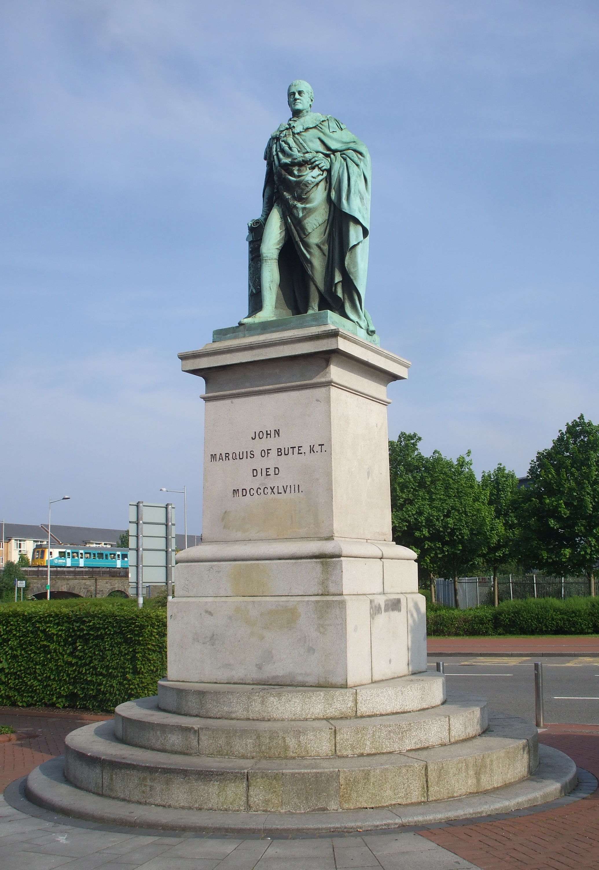 Statue of John Crichton-Stuart, 2nd Marquis of Bute